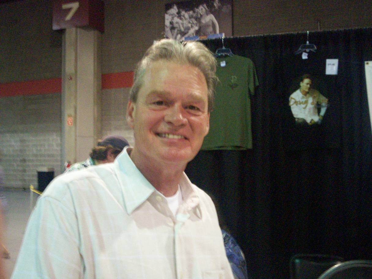 Country music singer Doug Stone at CMA Music Fest, June 2010.